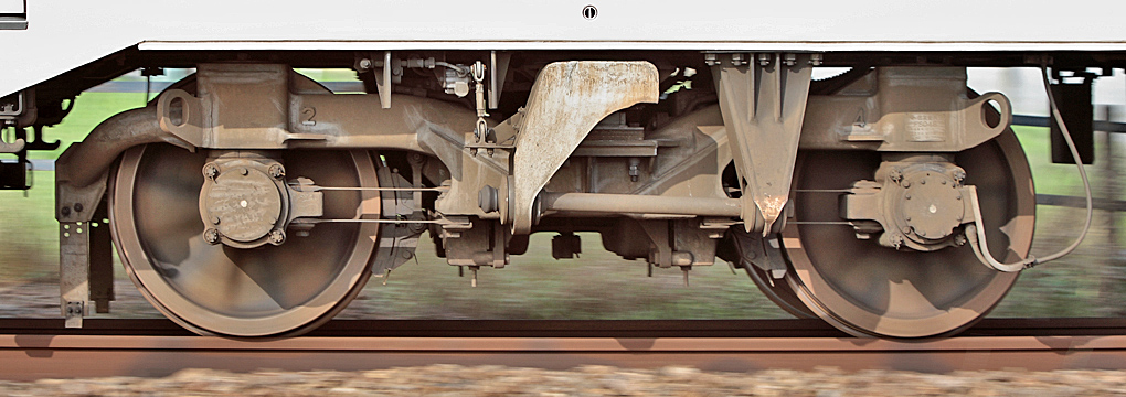 Sumitomo Metal Industries type FS-048 bogie truck of Meitetsu 1000 series ( Ku 1011 )